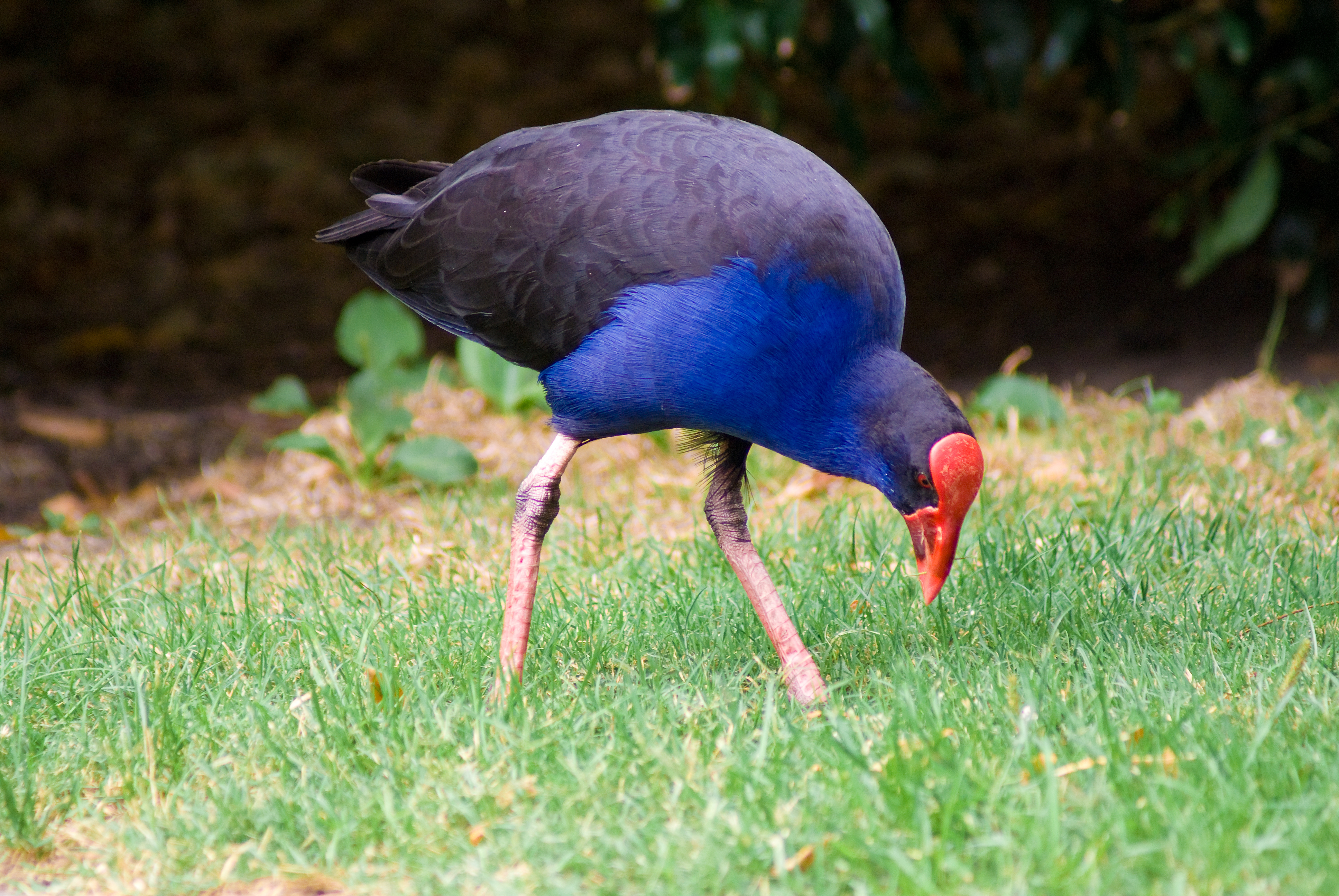 Purple Swamphen in Australia.